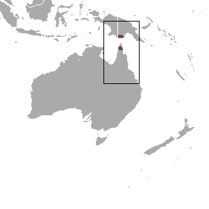 Chestnut Dunnart (Sminthopsis archeri) range